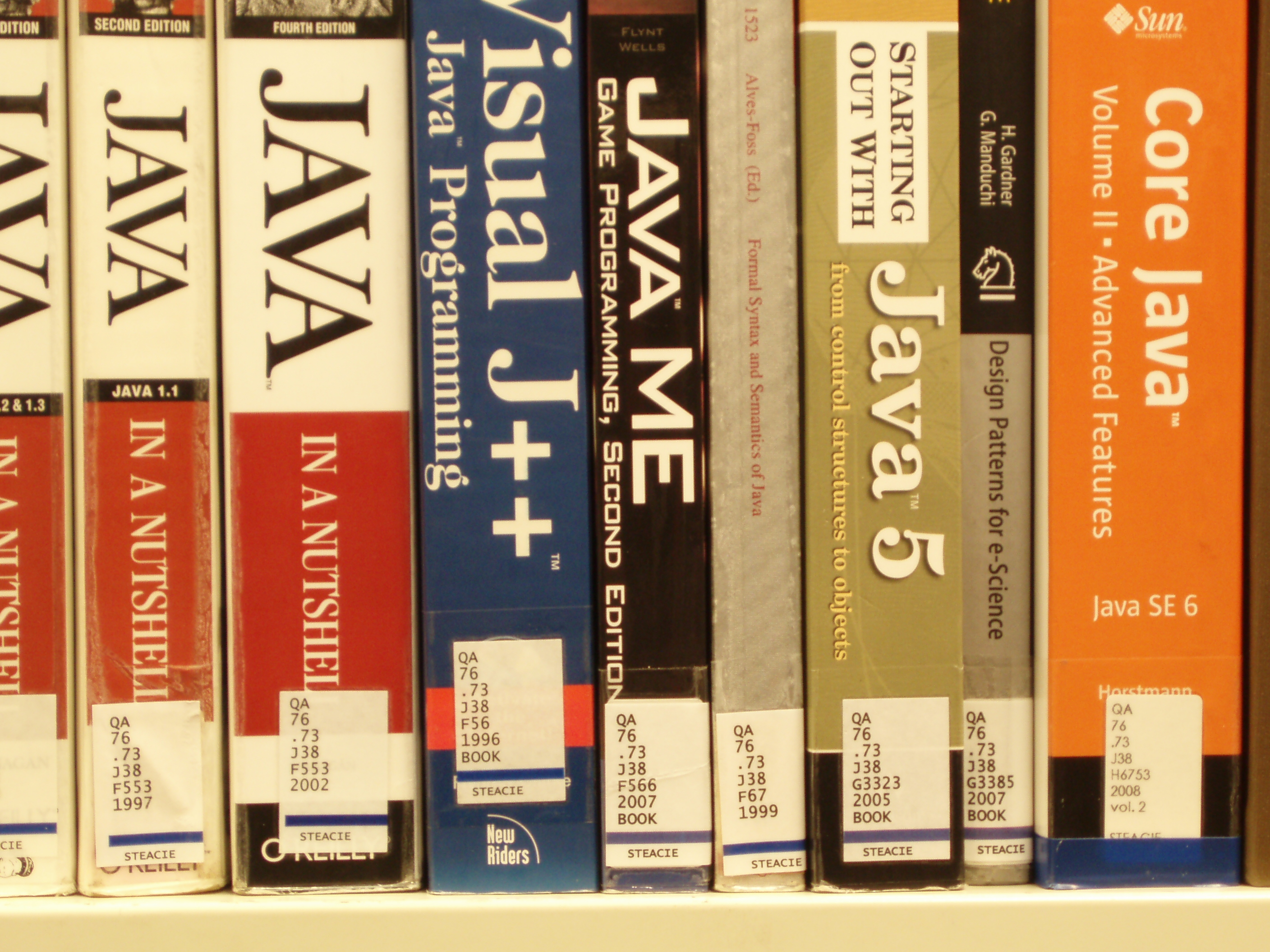 Java Books sorted by Library of Congress Classification call number at the York University in Toronto.